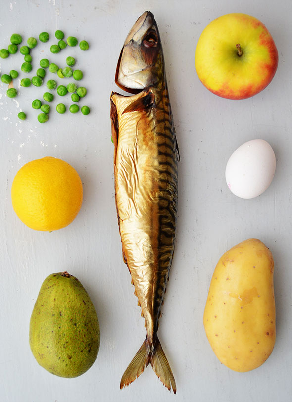 I made this photo for a recipe blog post on how to make a mackerel and apple salad: You can use it, but please link back to the original blog post. Thanx!